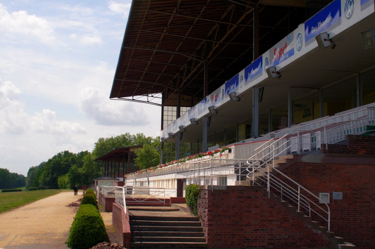 Grandstand of Galopprennbahn Hoppegarten.